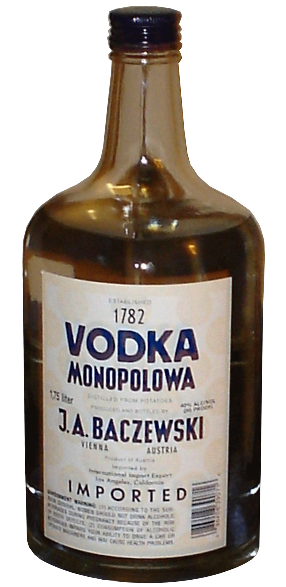 Monopolowa Vodka, 1.75L size bottle, imported to the United States through International Import Export from Austria. Picture taken 15 March 2005.